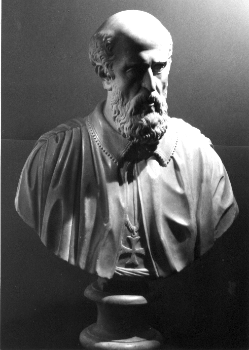 Bust of Baccio Valori by Giovanni Caccini, formerly in the andito of Palazzo Altoviti. On the spine, it holds the inscription, "DI LUGLIO MDLXXXX" and the monogram, "VA" (these two letters are joined together)